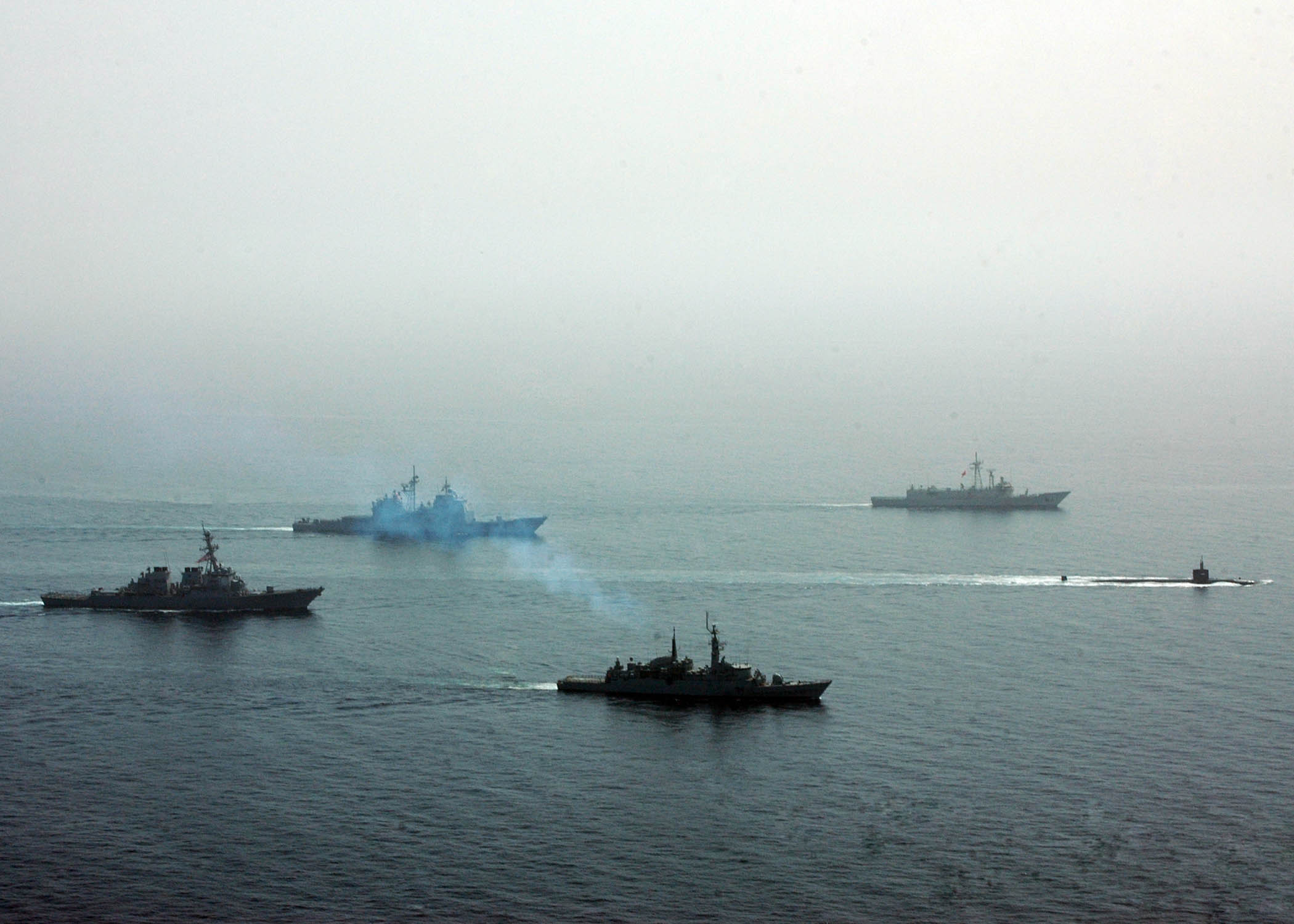 The Los Angeles-class fast-attack submarine USS Norfolk (SSN 714) leads a formation of vessels through the North Arabian Sea April 17, 2008, during Arabian Shark '08, a joint exercise between Pakistan, Bahrain and the United States focused on antisubmarine warfare. DoD photo by Mass Communication Specialist Seaman Ryan Steinhour, U.S. Navy.